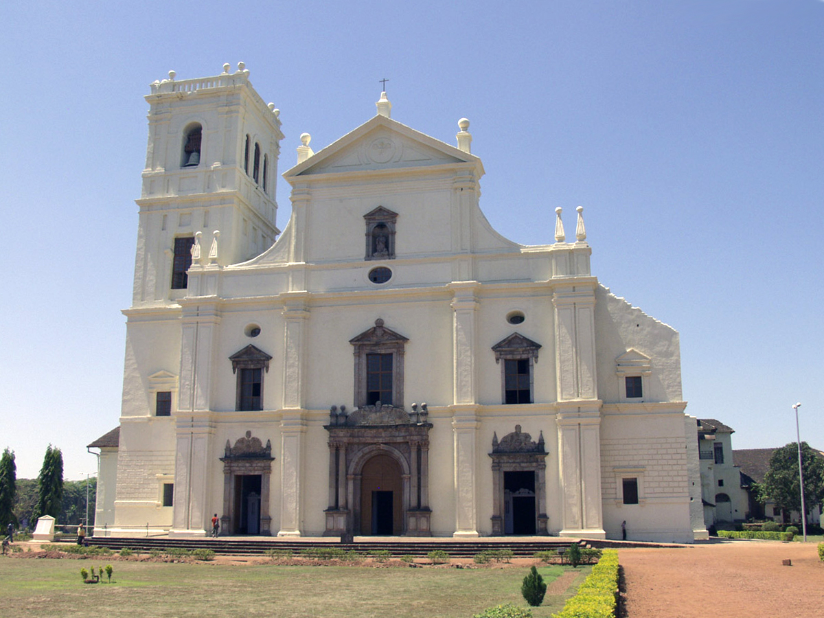 Se Cathedral, Old Goa.